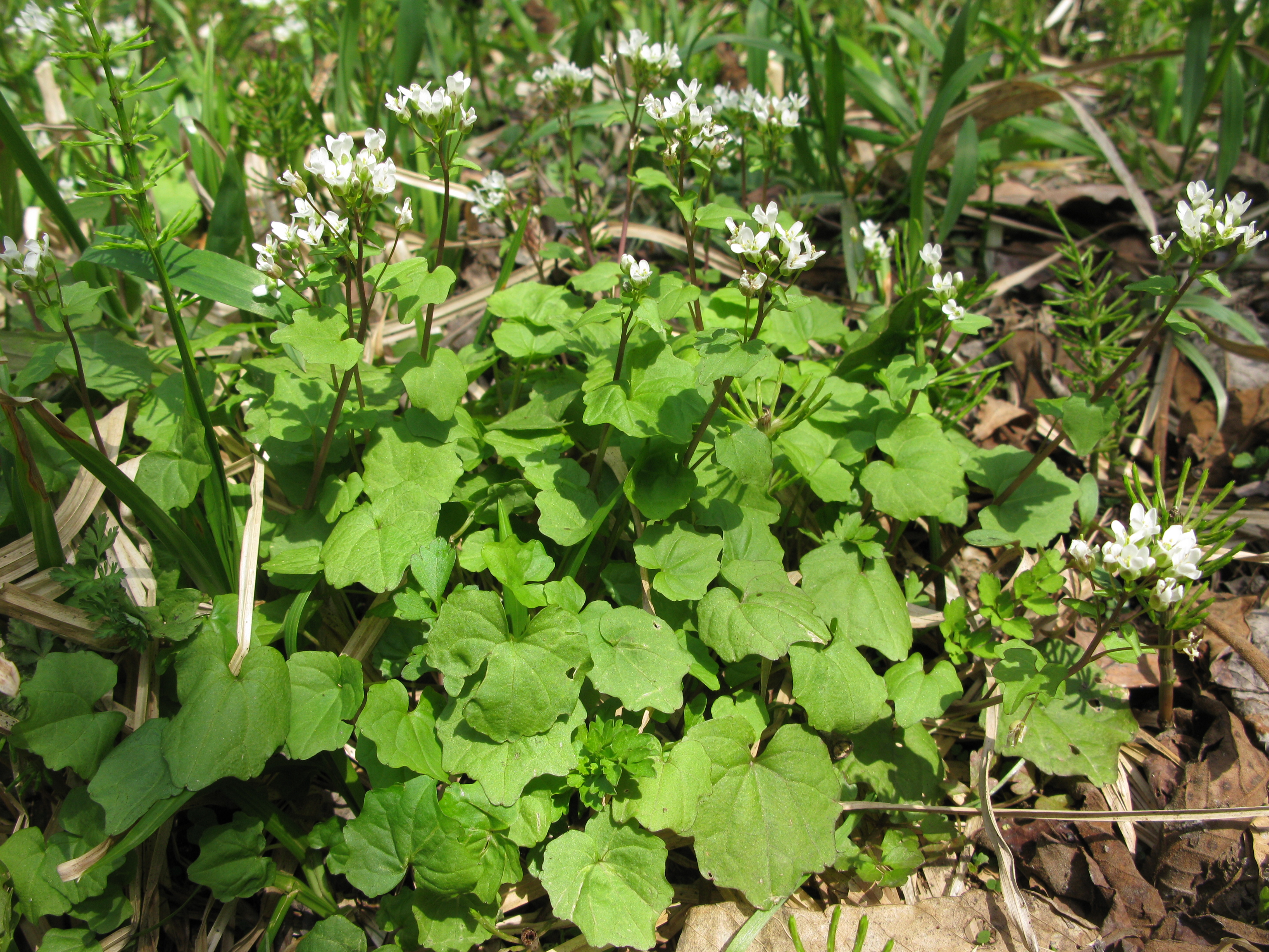 Eutrema okinosimense, Aizu area, Fukushima pref., Japan